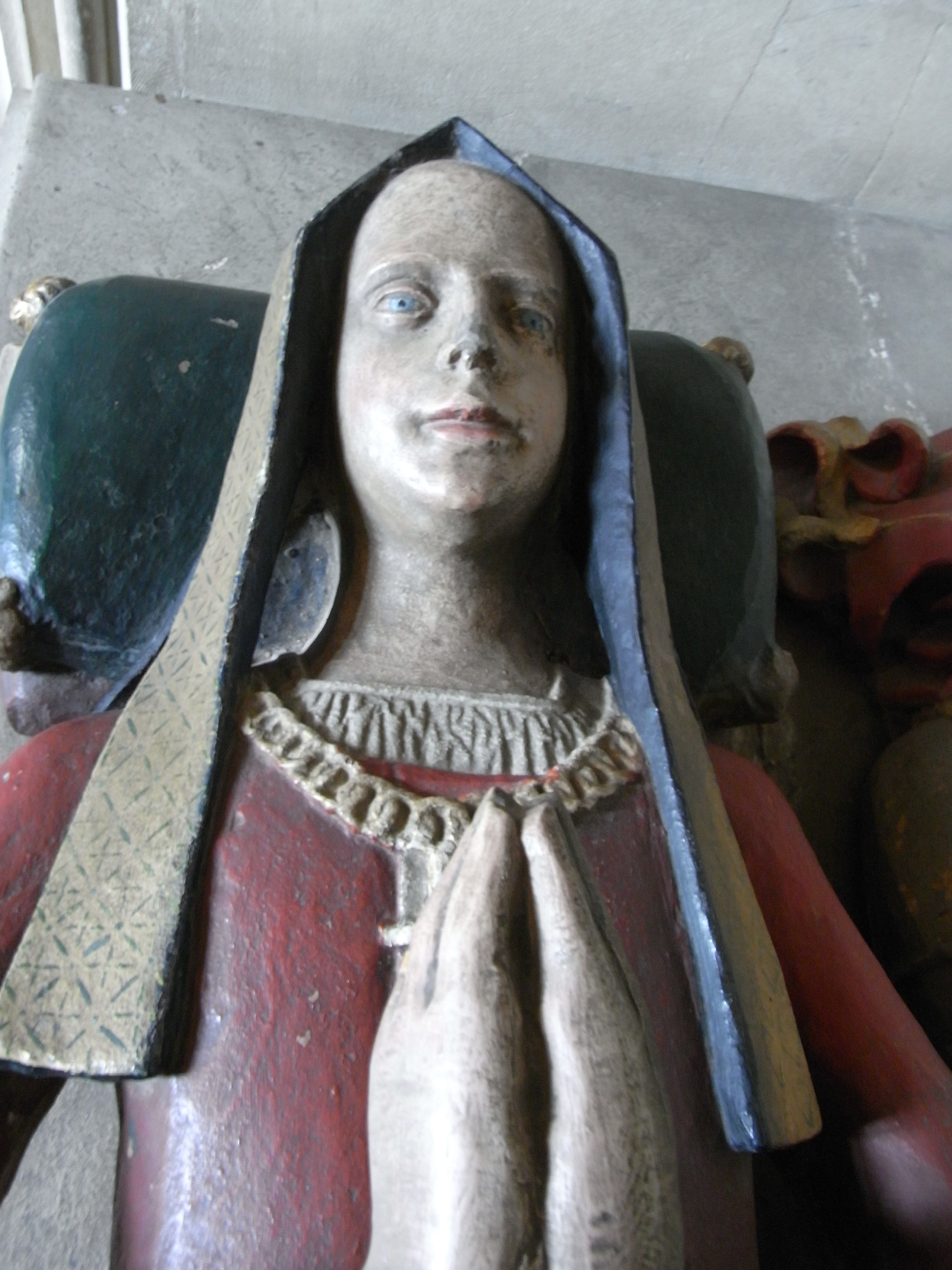 The effigy of Lady Anne Gorges (née Howard), the wife of Sir Edmund Gorges (died 1512), on their tomb in All Saints Church, Wraxall, Somerset, England, UK. She was a daughter of John Howard, 1st Duke of Norfolk (c. 1425 – 22 August 1485).